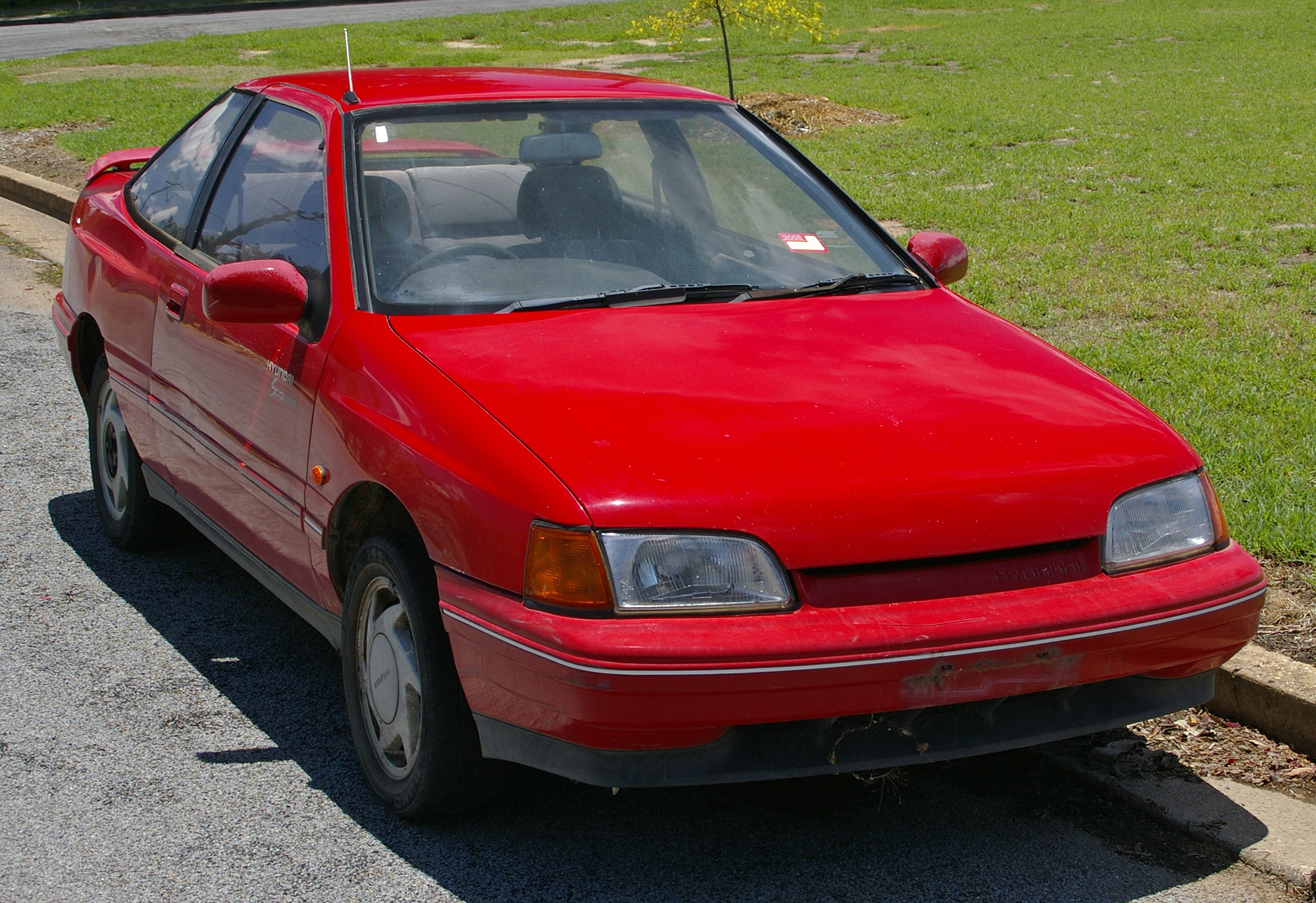 1991 - 1995 Hyundai Scoupe photographed in Australia.